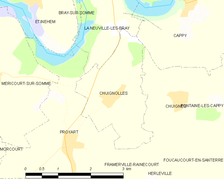 Map of French municipality Chuignolles